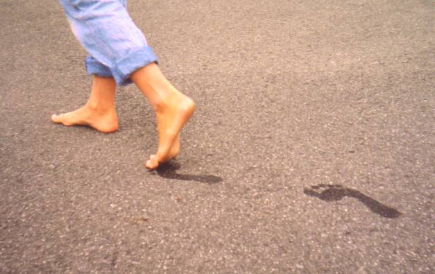 Healthy feet of an 11-year-old girl who regularly goes barefoot. Note the presence of ideal arches, looking at her footprints on the dirty floor.